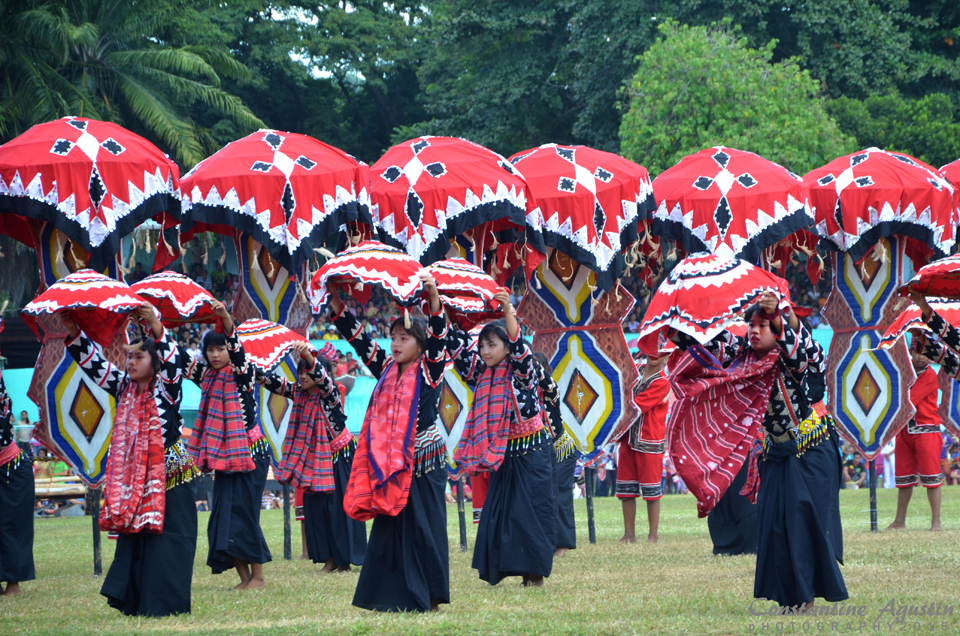 T’nalak is a hard-woven cloth made of abaca fibers with geometric designs and originally in color combination of red, black and natural abaca fiber. Intricately crafted by the T’bolis of Lake Sebu, South Cotabato, it is said that one has to dream of the T’nalak in order to make one. The T’nalak Festival is the Dreamweaver’s Festival!